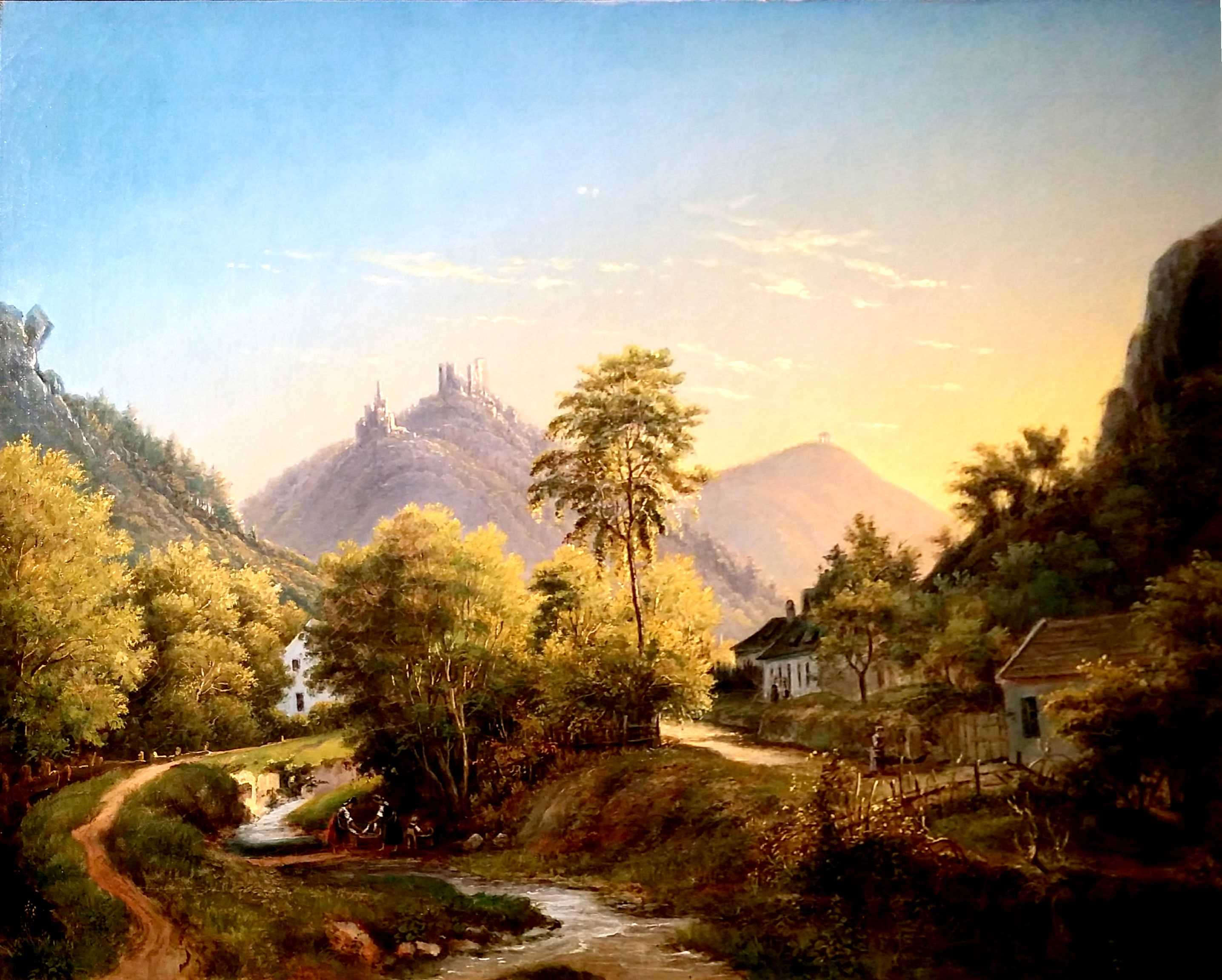 This picture gives you a view to the Bruehl at Mödling nearby vienna in the afternoon. In the Background you see the ruin of the castle Mödling and the "Husarentempel" which remember to the battle of Asparn against Napoleon.